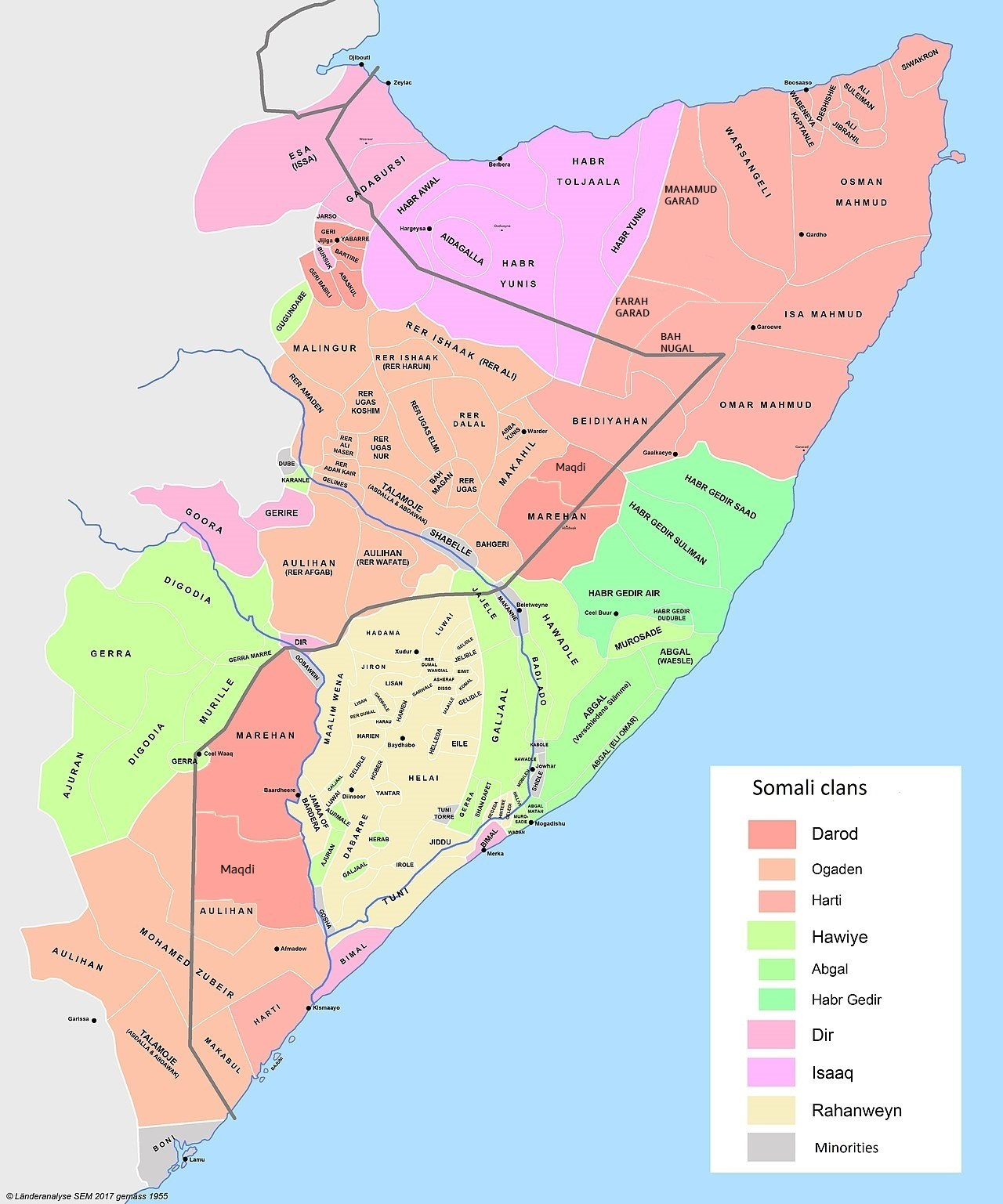 Major somali clans map